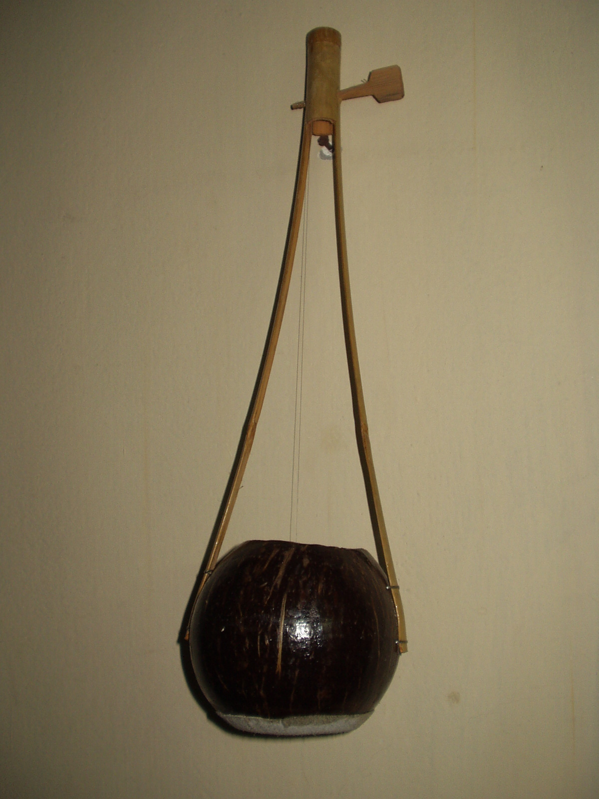 ek tara, with one string, common musical instrument of Bauls. Mamun2a 08:23, 26 August 2006 (UTC)